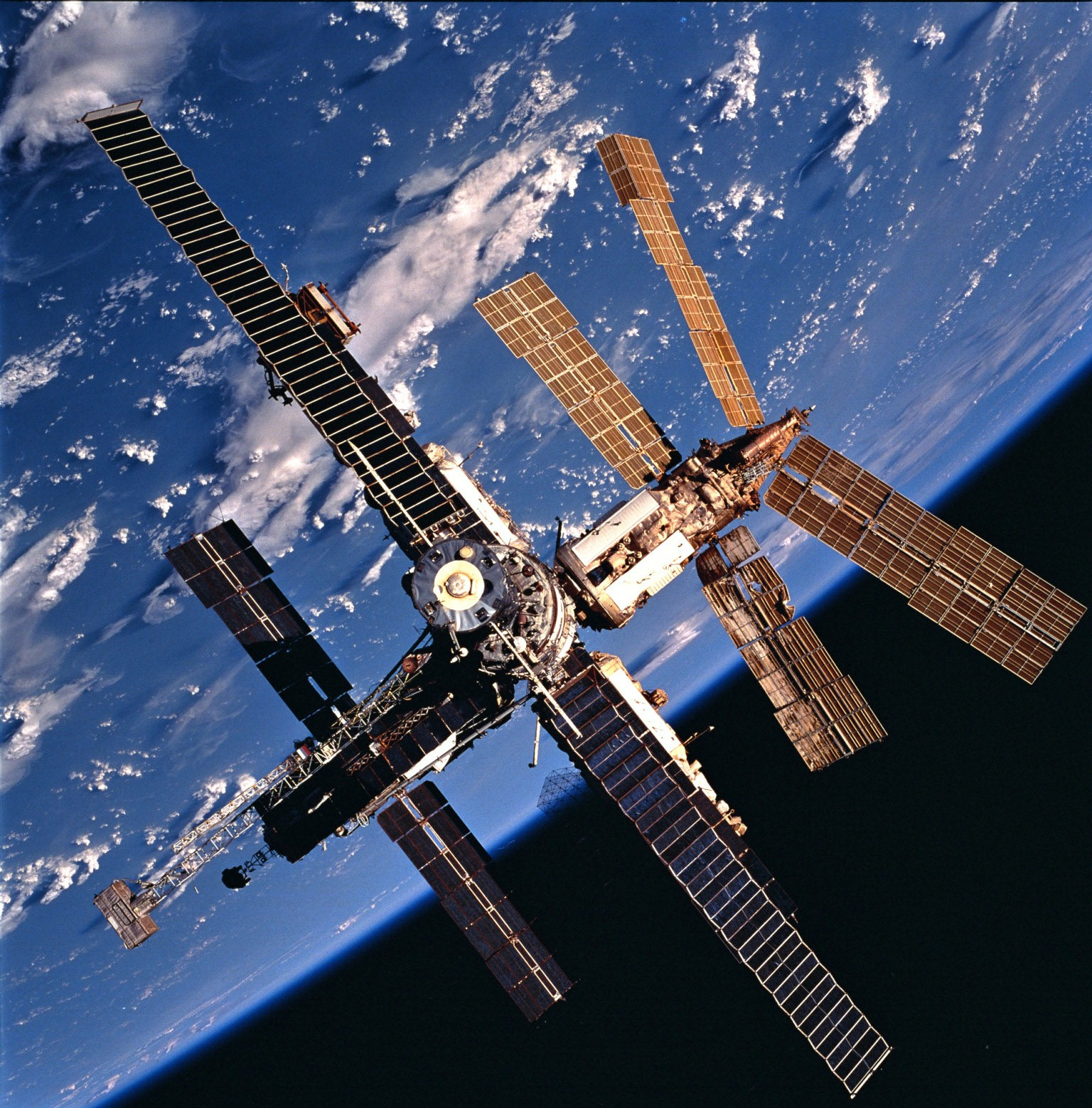 Scenic view of Mir over open ocean, clouds, earth limb.